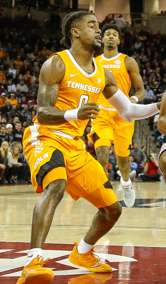 Photo by Chris Gillespie